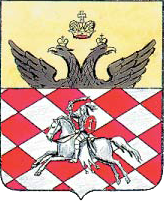 Coat of Arms of Velizh